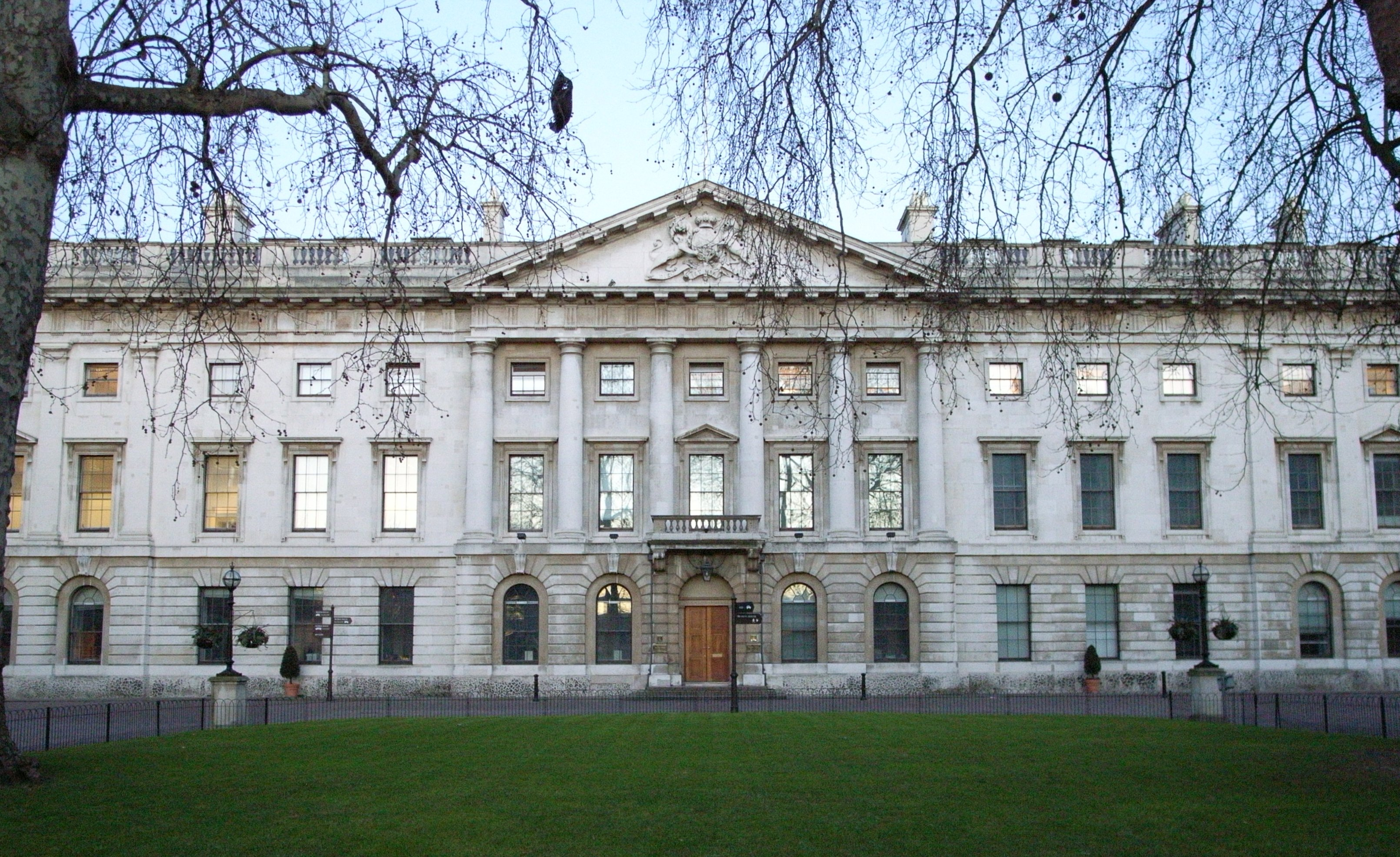 The (former) Royal Mint (1807-9) by Robert Smirke and James Johnson